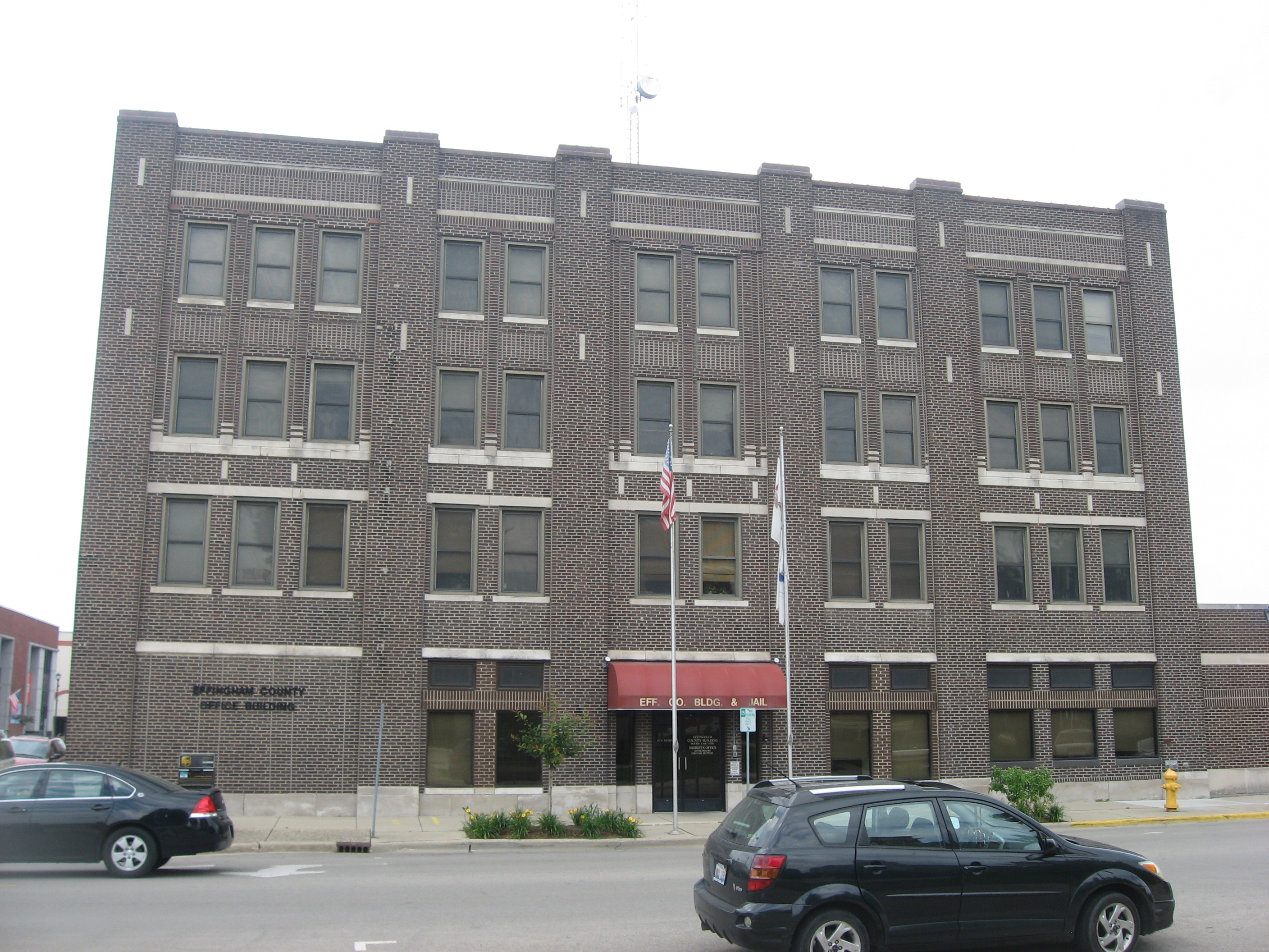 Front of the Effingham County Building and Jail, located at 120 W. Jackson Avenue in Effingham, Illinois, United States.